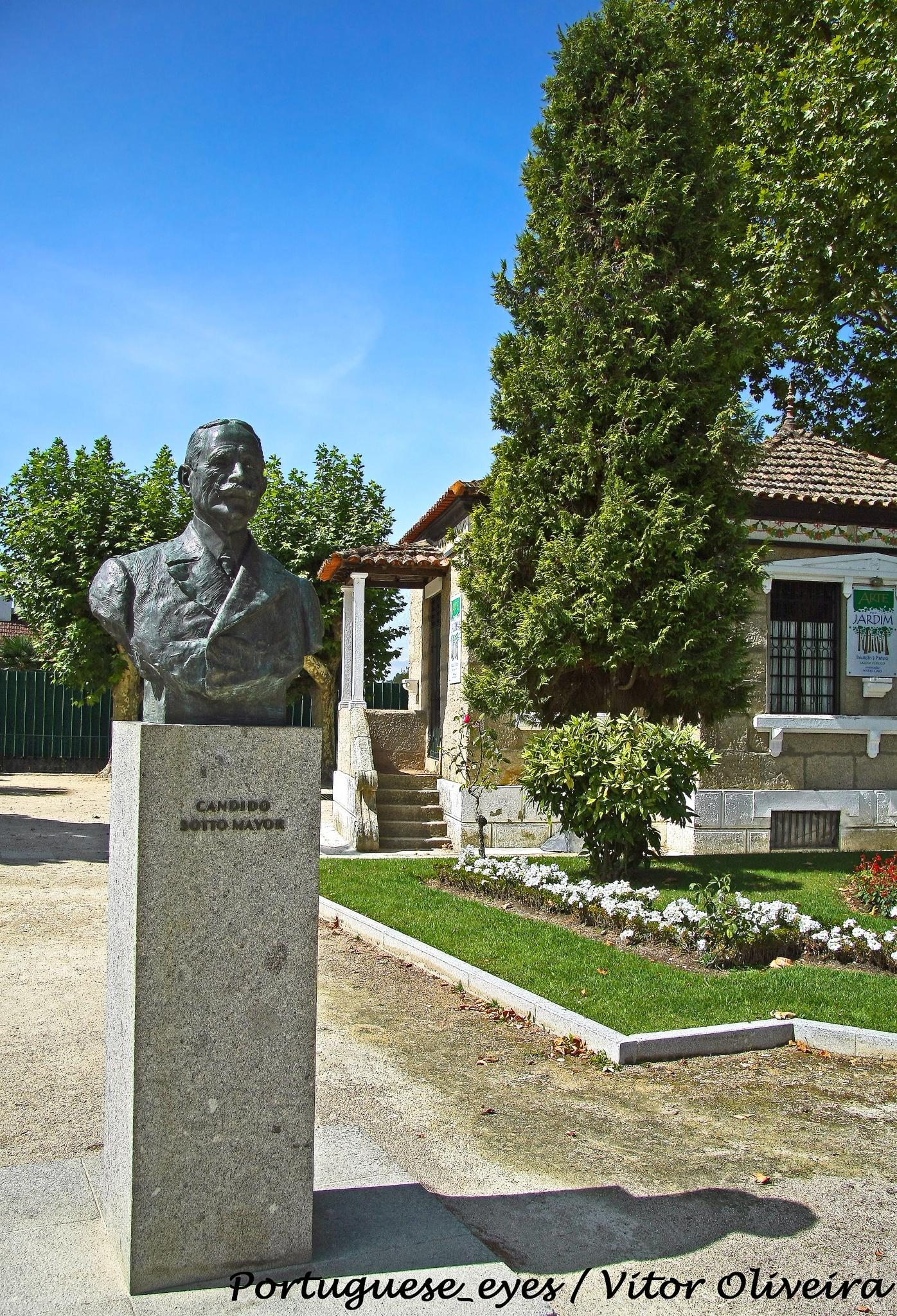 See where this picture was taken.. [?]